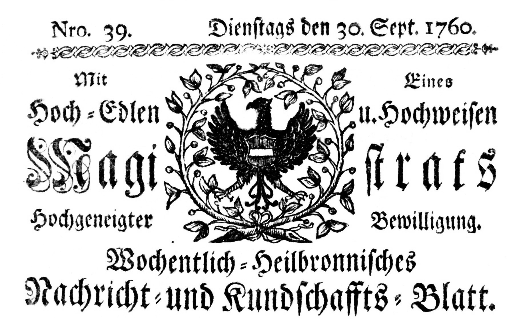 Masthead of the Heilbronn newspaper Wochentlich Heilbronnisches Nachricht- und Kundschafts-Blatt from September 30, 1760